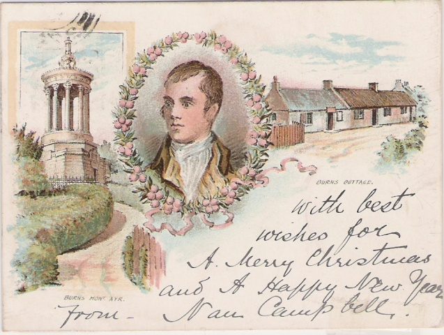 Vintage postcard dated 1899 showning Robert Burns with Burns Monument & Cottage